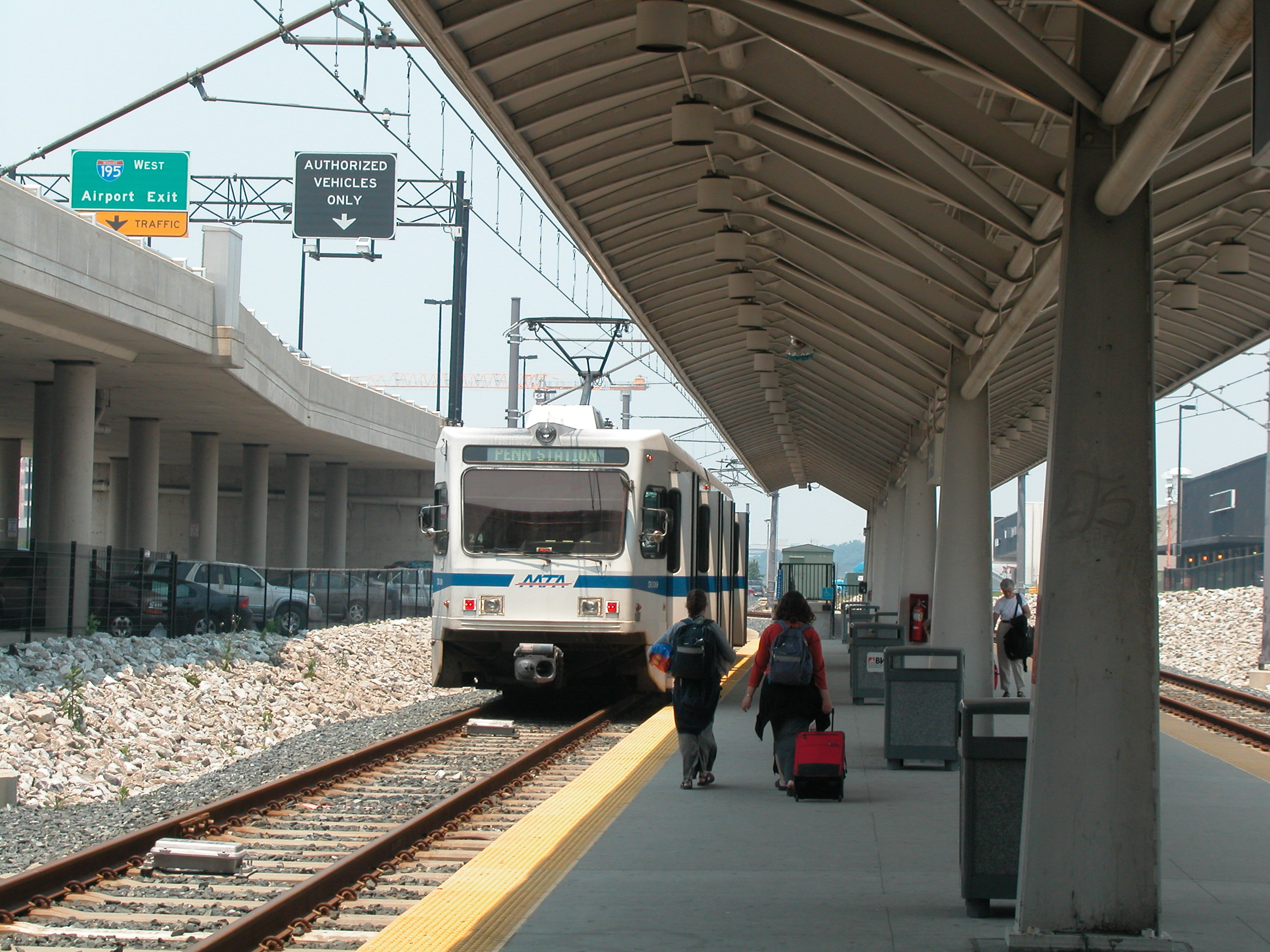 A Light Rail train at BWI Airport in June 2003